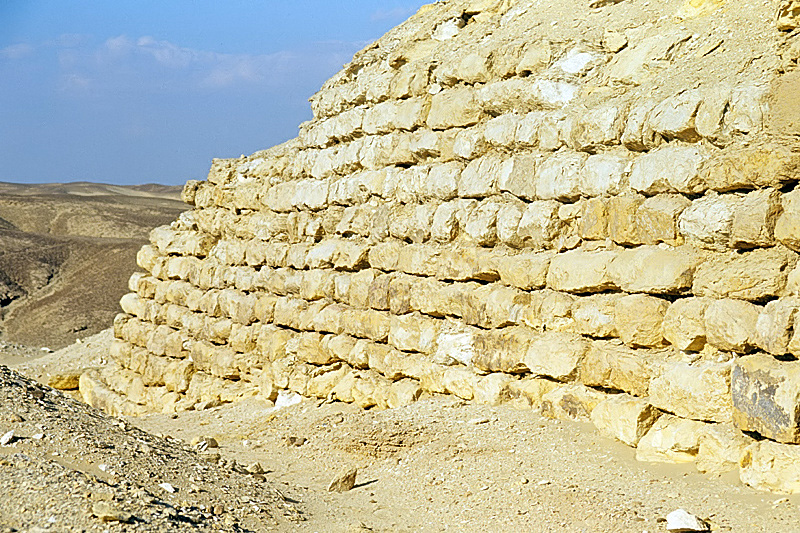 North-west corner of the pyramid, Sila (Seila), el-Fayyum, Egypt